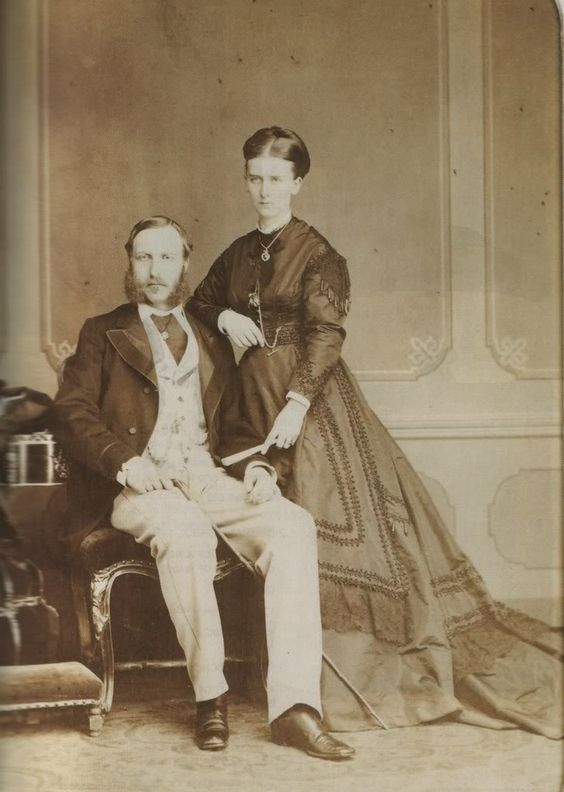 Philippe and Marie, Count and Countess of Flanders.